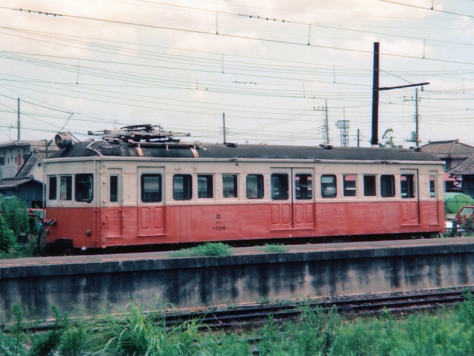 Hitachi Dentetsu EMU No.1008 at Johoku Ota Sta.